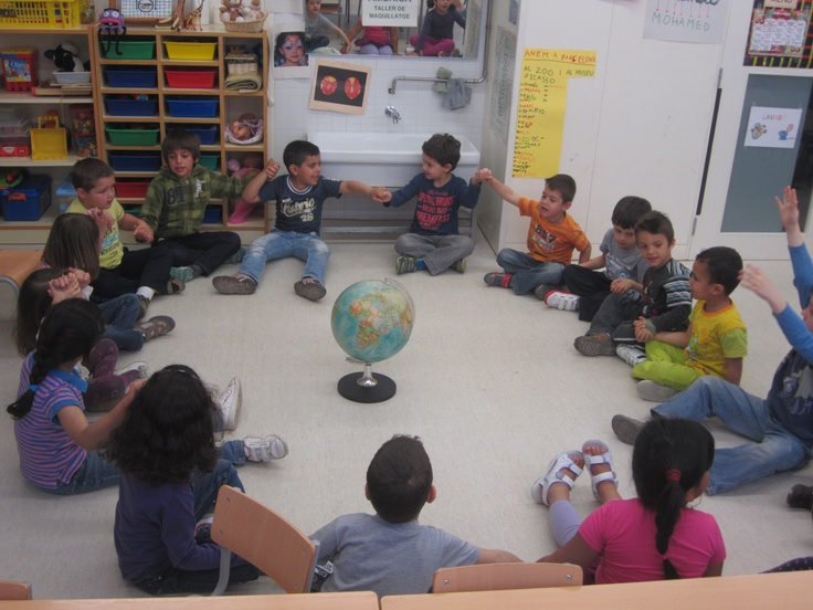 Earth Day 2013 celebrated in a school in Valls